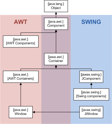 Pseudo-class diagram of AWT and Swing hierarchy in Java.